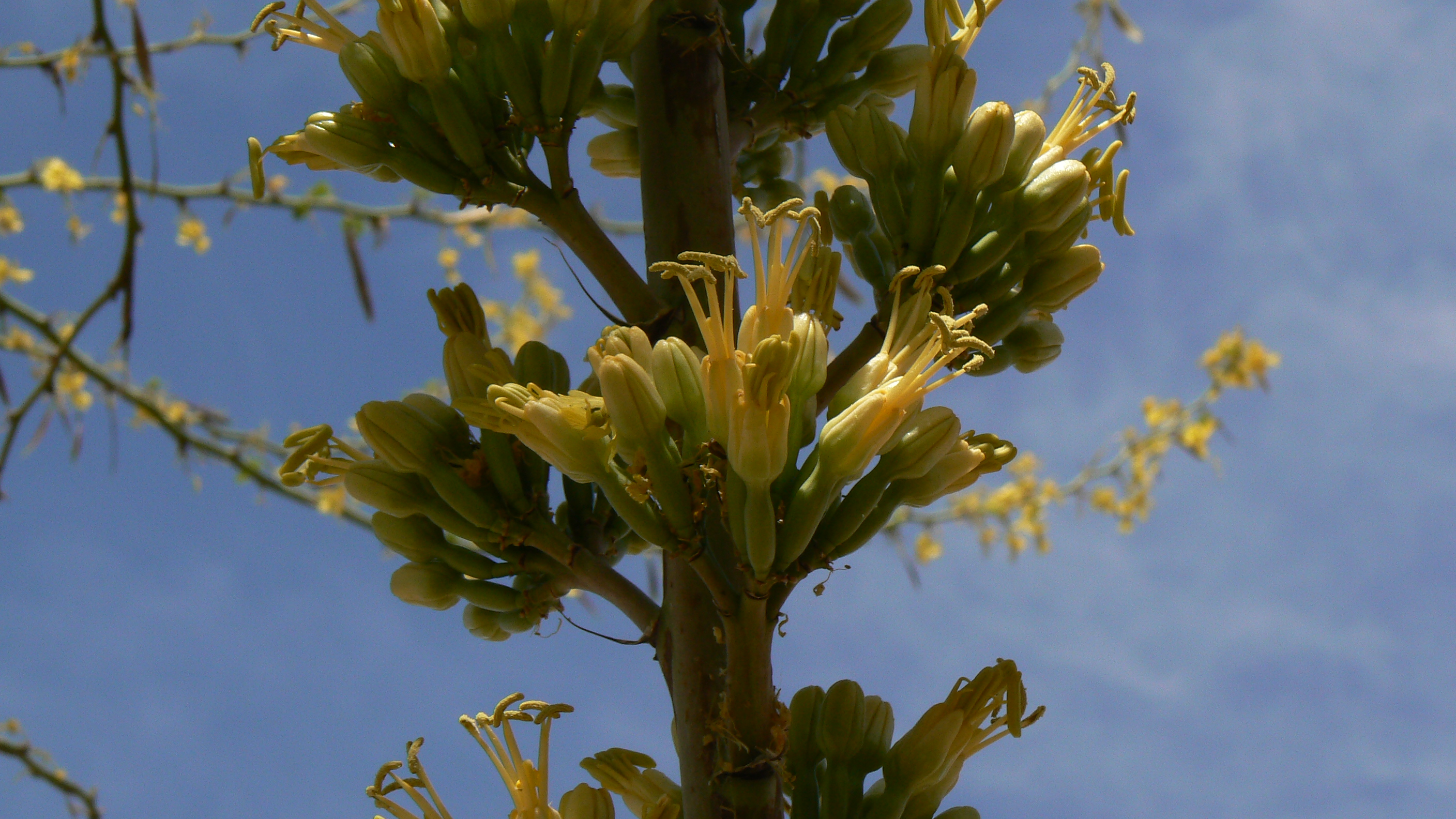 Flowers on the approximately 11 foot tall flowering shaft of Agave arizonica, blooming in early May in a residential landscape in central Arizona.